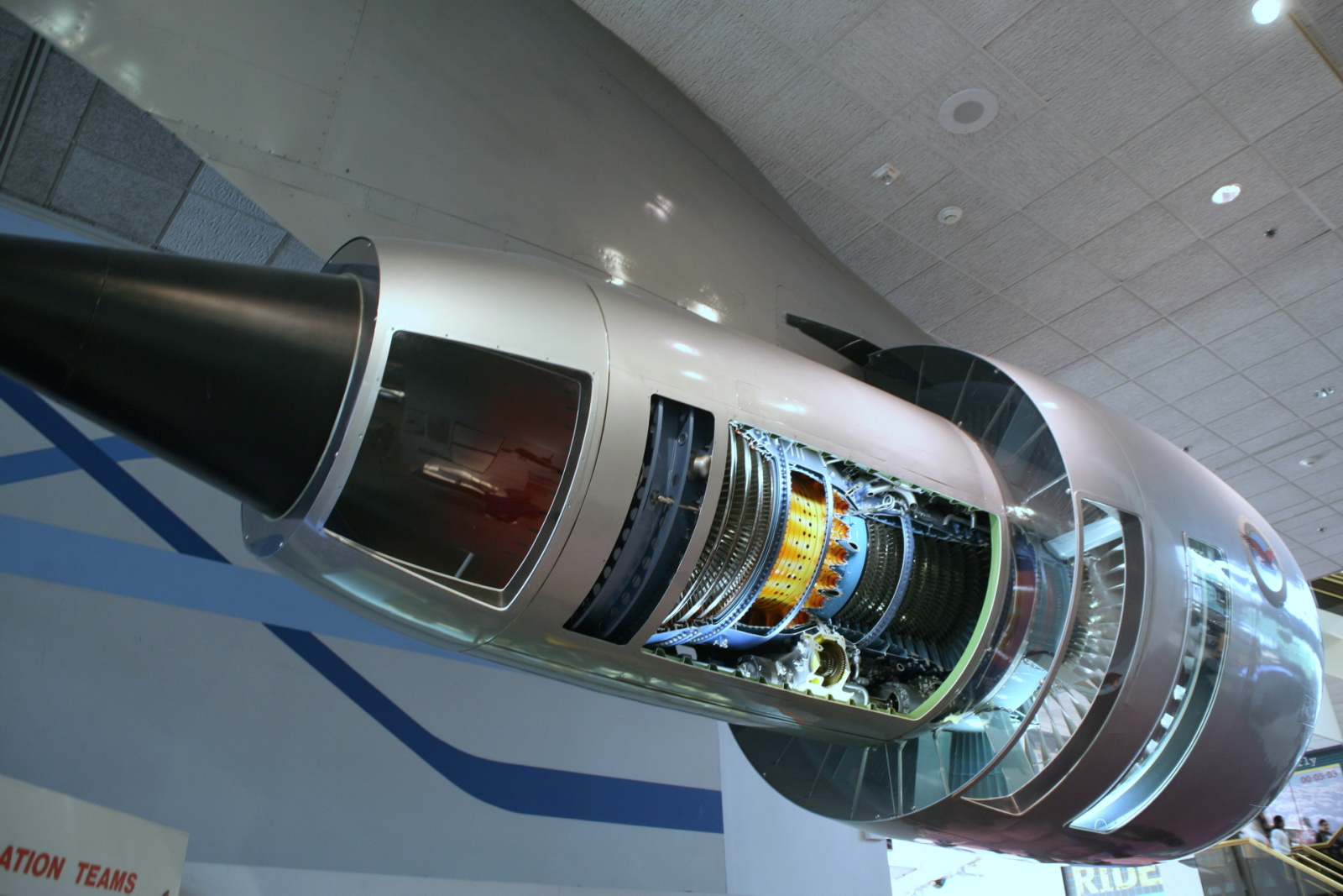 The Pratt & Whitney JT9D turbofan was developed to power the current generation of wide-body commercial jets. It first ran in 1966, was flight tested in 1968, and received FAA certification in 1969. JT9D engines powered the Boeing 747 on its first flight on February 9, 1969, and entered airline service in 1970. The JT9D also powered some versions of the McDonnell Douglas DC-10, and Airbus Industrie A300 and A310. An advanced design, the JT9D was the first of the very large, high bypass ratio turbofans in commercial service. The JT9D displayed here is a pre-production engine built for ground testing rather than for flight, although it is outwardly identical to production examples.